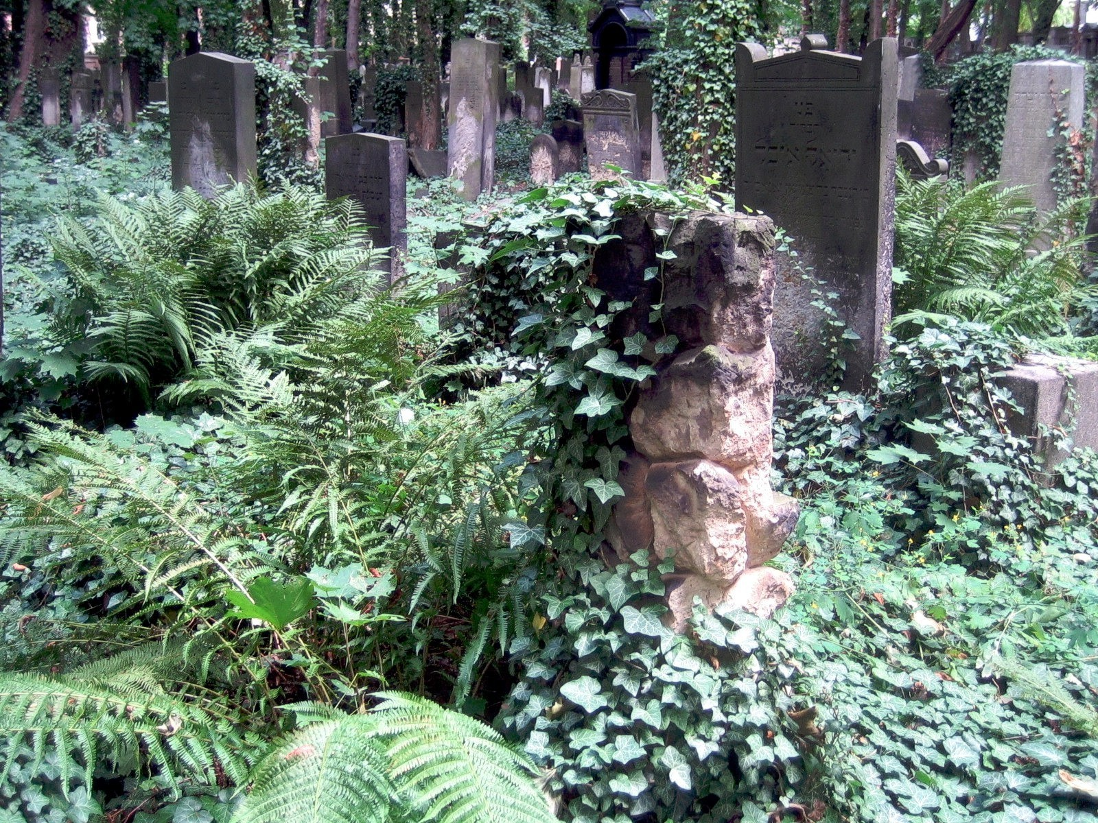 Jewish cemetery Berlin Schoenhauser Allee. Field of graves.